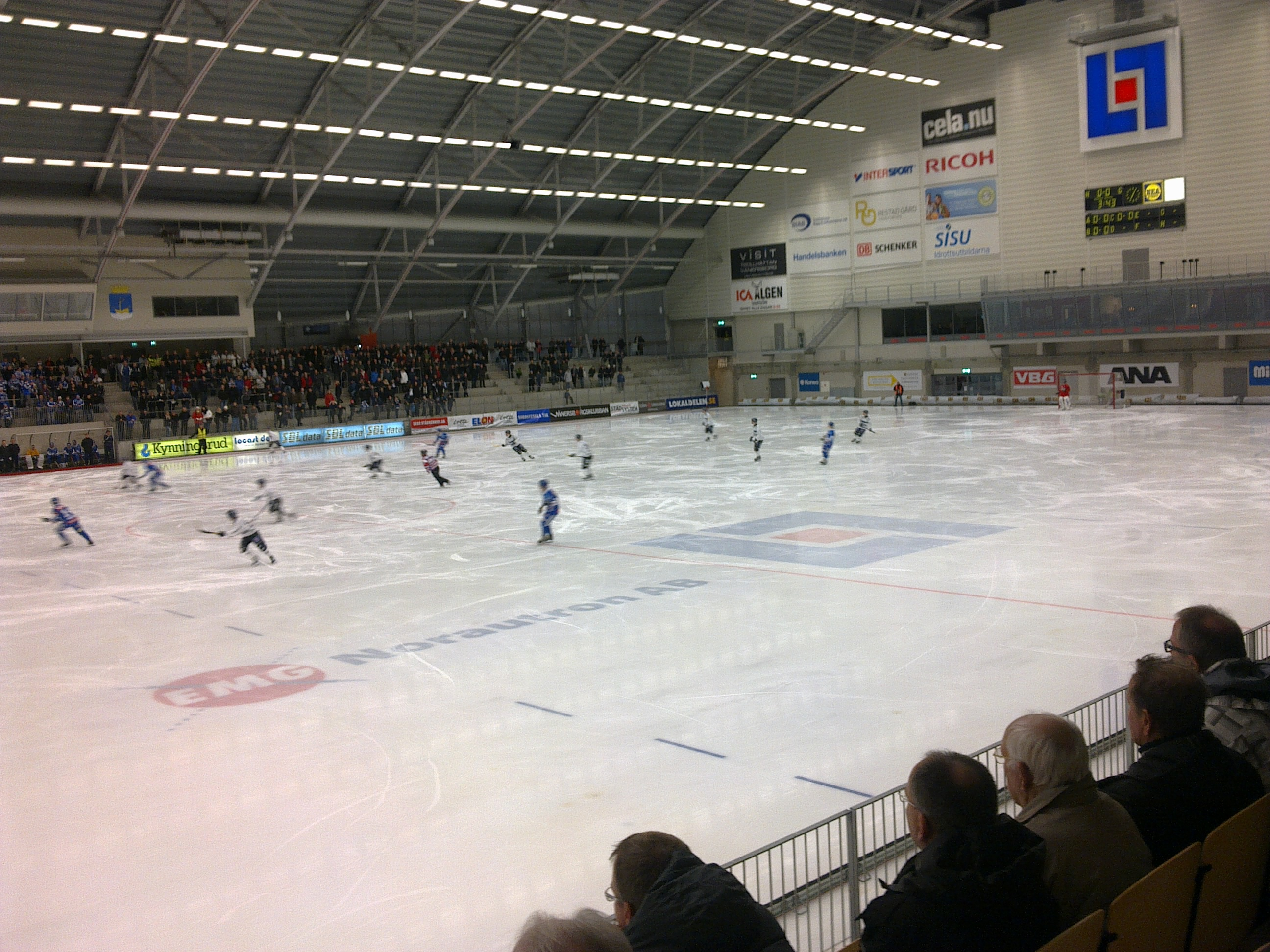 Indoor view of Arena Vänersborg